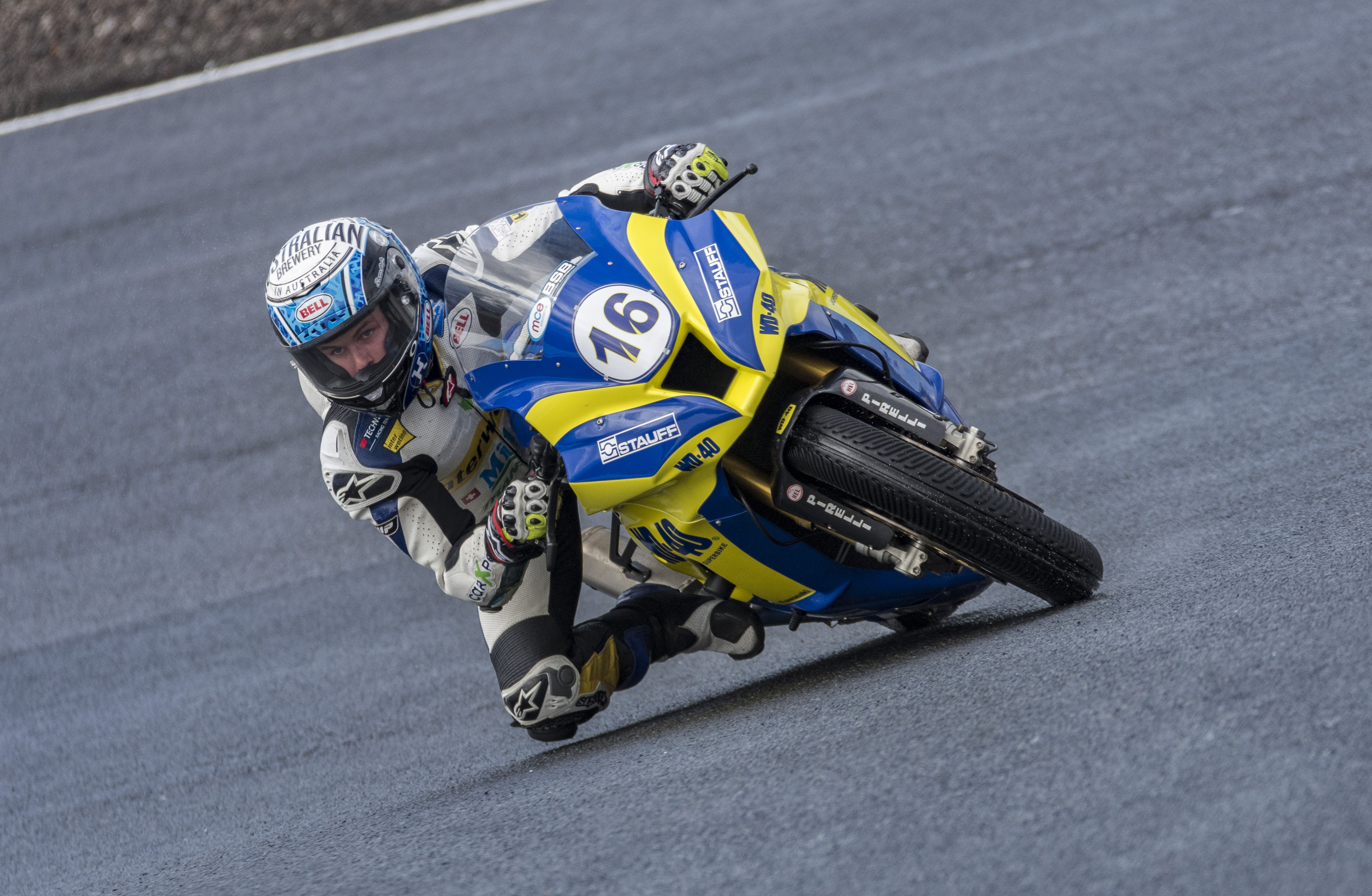 2016 British Superbike Championship Round 4, Knockhill – #16 Josh Hook – Kawasaki – Team WD40 Kawasaki